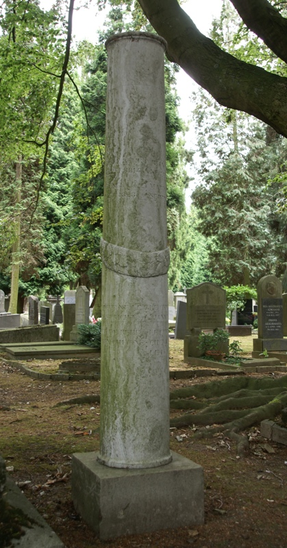 National monument no. 506571 - Tongerseweg 292, Maastricht, The Netherlands - grave monument of Behr